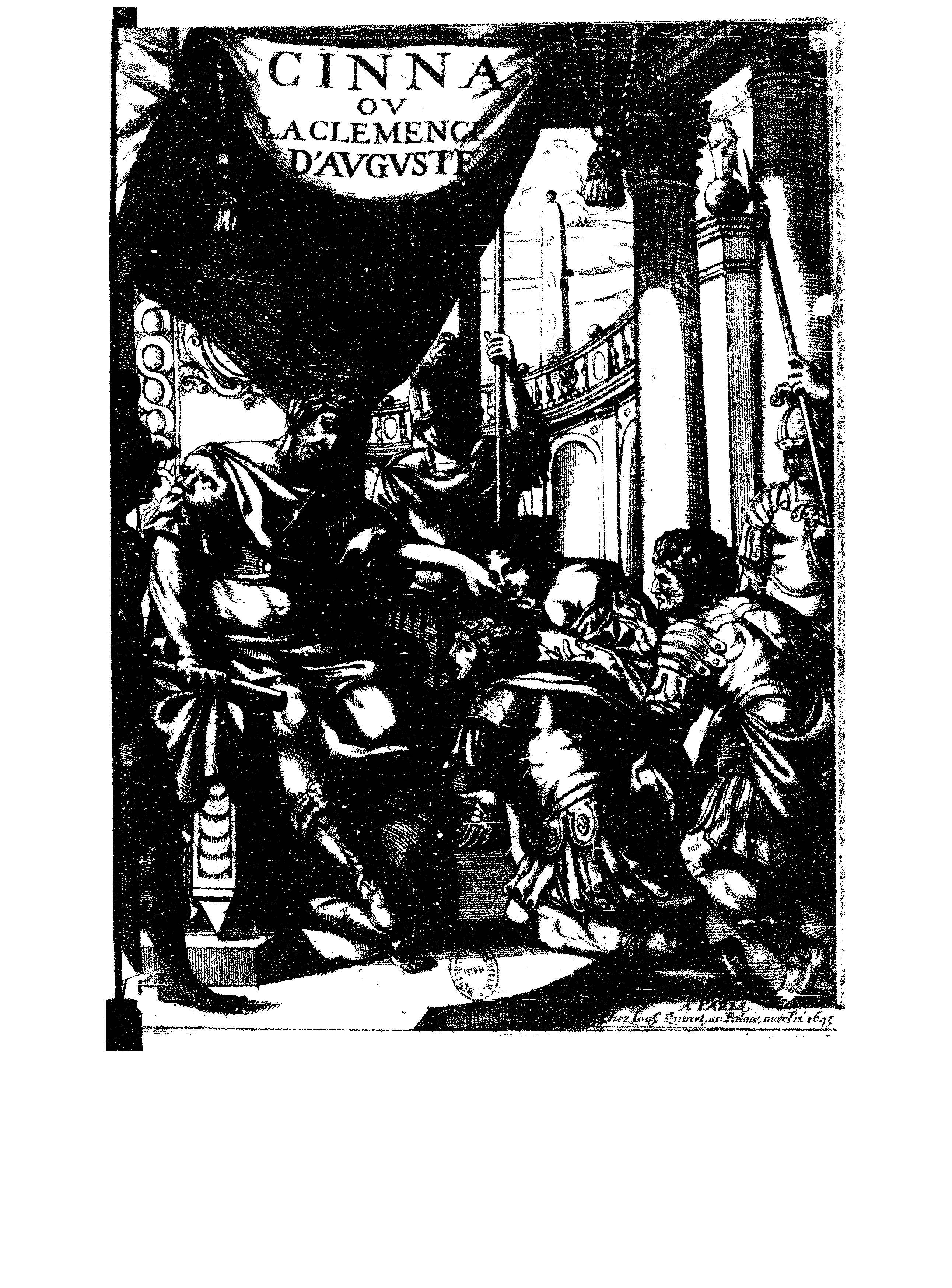 image from the 1643 edition of Cinna